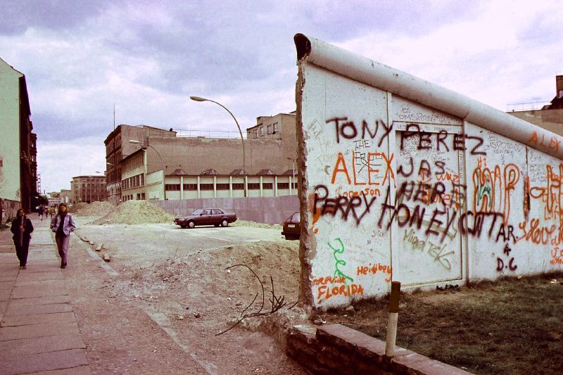 Berlin wall partly torn down